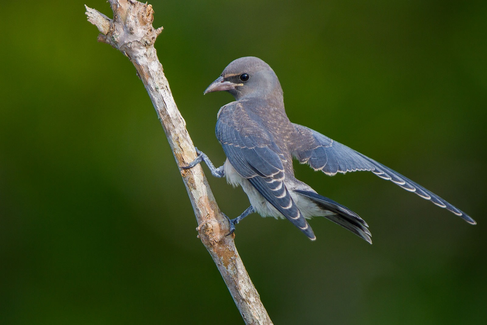 Ashy Wood Swallow in Sundarban Tiger Reserve, West Bengal, India.